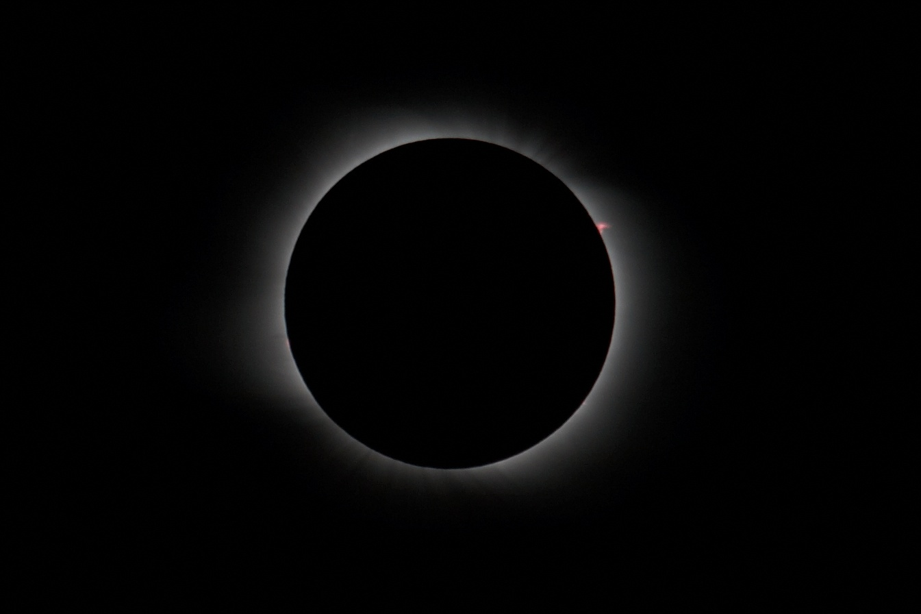 The Solar eclipse of 2008 August 1st in Novosibirsk, Russia.